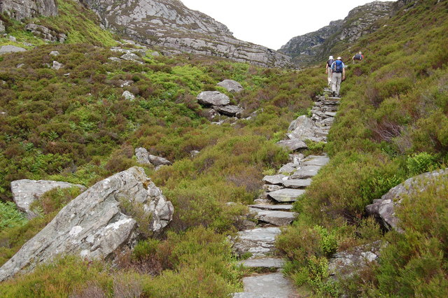 The Roman Steps. Ancient Cambrian Rocks dominate this area of the Harlech Dome in the Rhinog Mountains. This pass is known as the Roman Steps but there is no real evidence of having been built by the Romans. The paving is probably medieval.